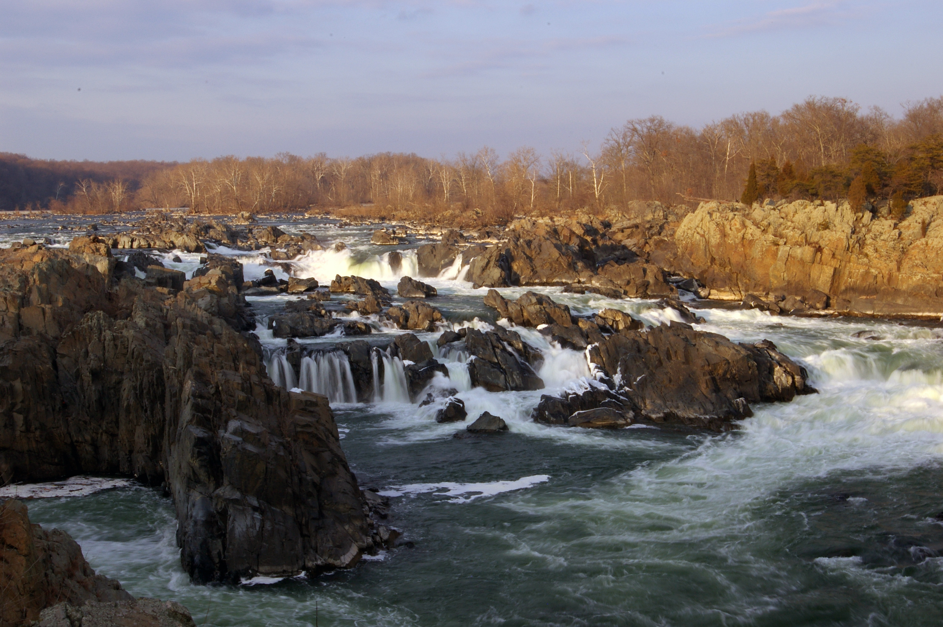 Great Falls on the Potomac River in January, 2008